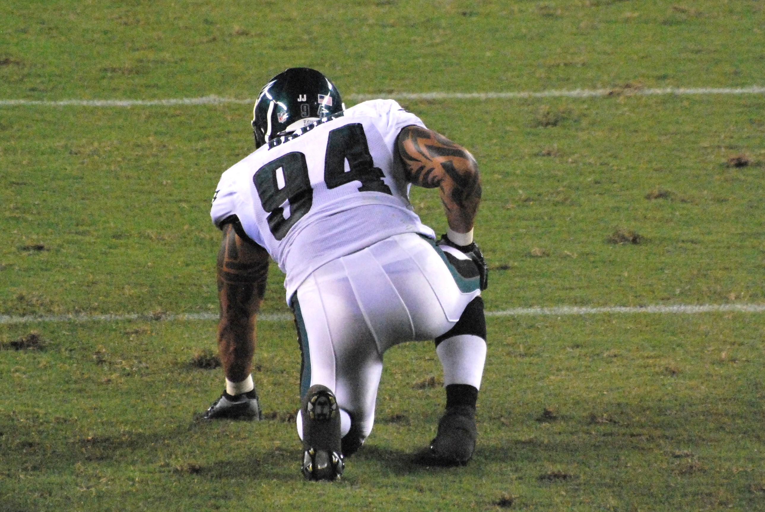 Jason Babin with the Eagles.